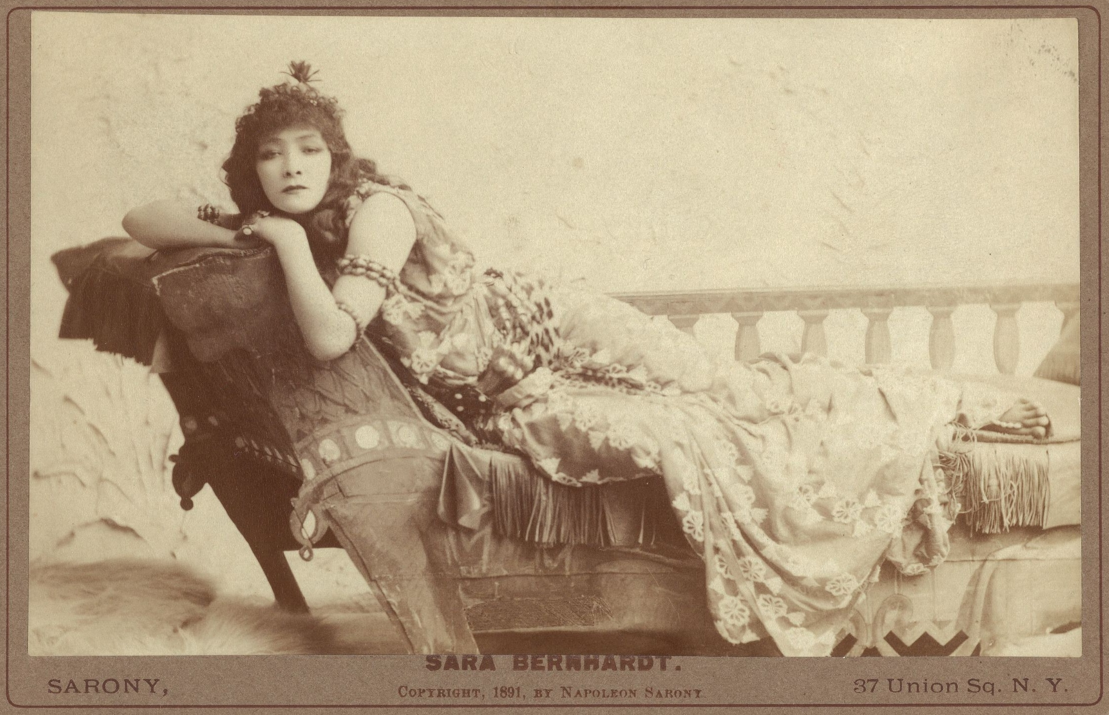 Cabinet card image of French actress Sarah Bernhardt (1844–1923) by Napoleon Sarony. Bernhardt is dressed as Cleopatra, 1891. TCS 2, Harvard Theatre Collection, Houghton Library, Harvard University